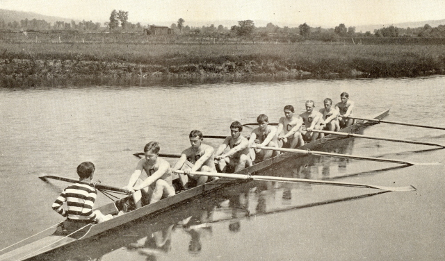 1901 Cornell varsity crew (L to R)J. G. Smith (cox), R. W. Robbins, A. S. Petty, H. E. Vanderhoef, C. A. Lueder, T. J. Van Alstyne, H. T. Kuschke, W. Merrill, S. Hazelwood